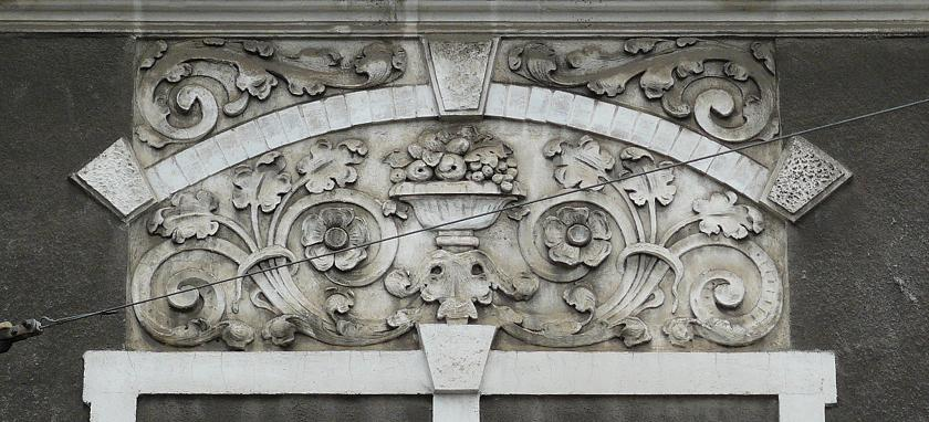 Poznan - Podgorna Street, detail from Jan Raczyborski.